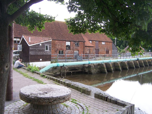 Eling Tide Mill The object in the foreground appears to be an old mill stone. The small building is the Toll Booth. The buttresses are the tidal barrage.